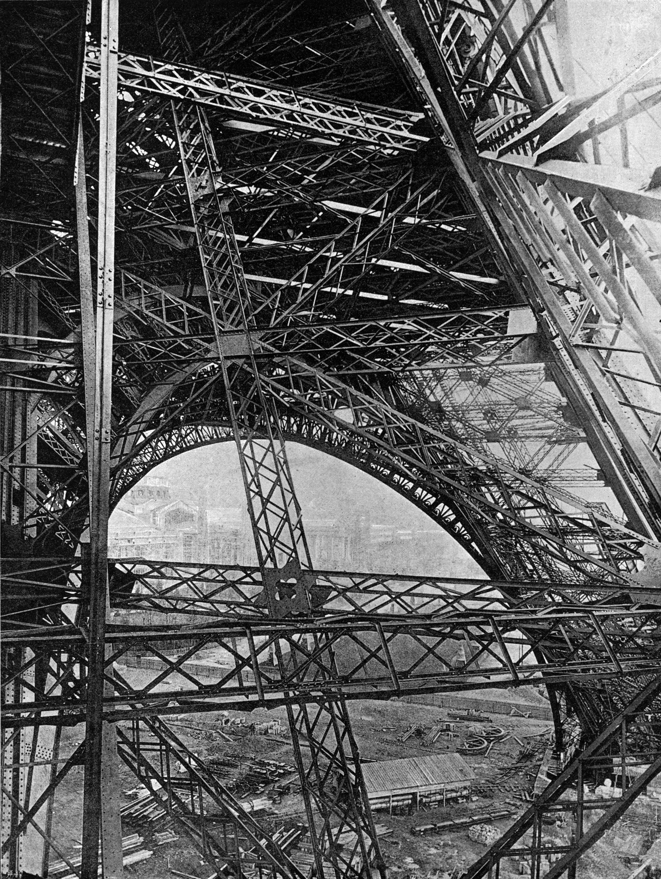 Paris: Eiffel Tower; construction view in 1889 of the girders of the first story